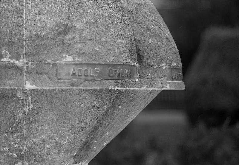 Parachute fountain in The Jephson Gardens, Leamington Spa, England